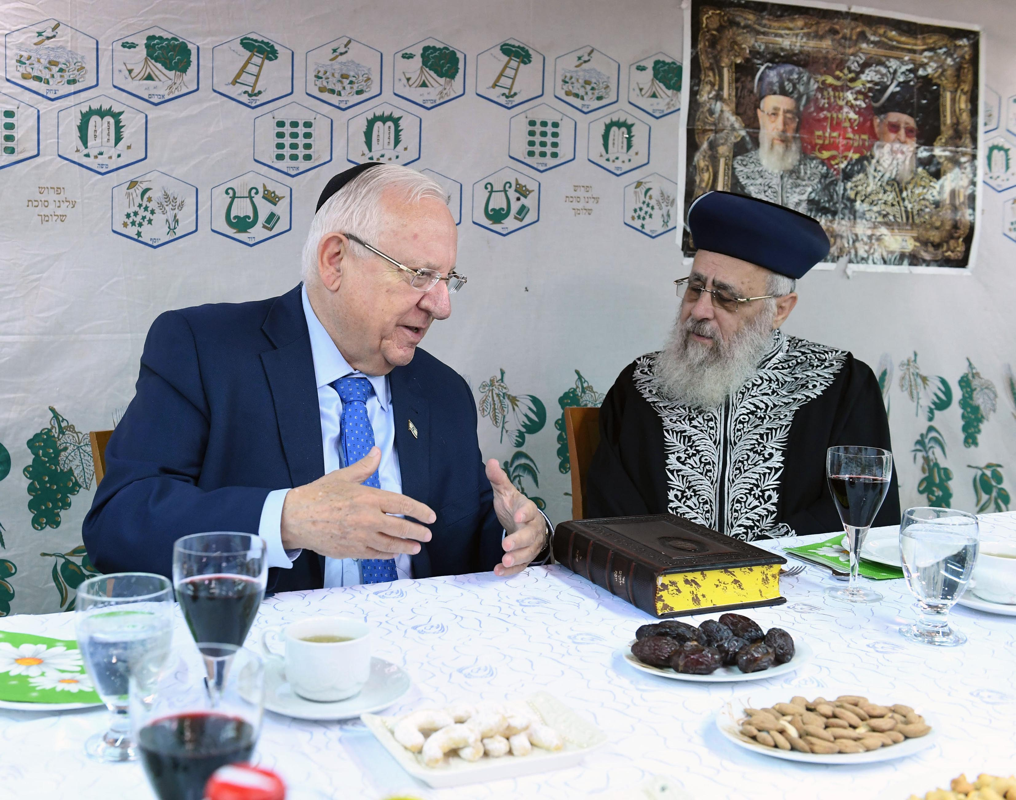 President Reuven Rivlin visiting the Chief Rabbis of Israel in their Sukkoth. Tuesday, October 10, 2017. Photo Credit: Mark Neyman / GPO.